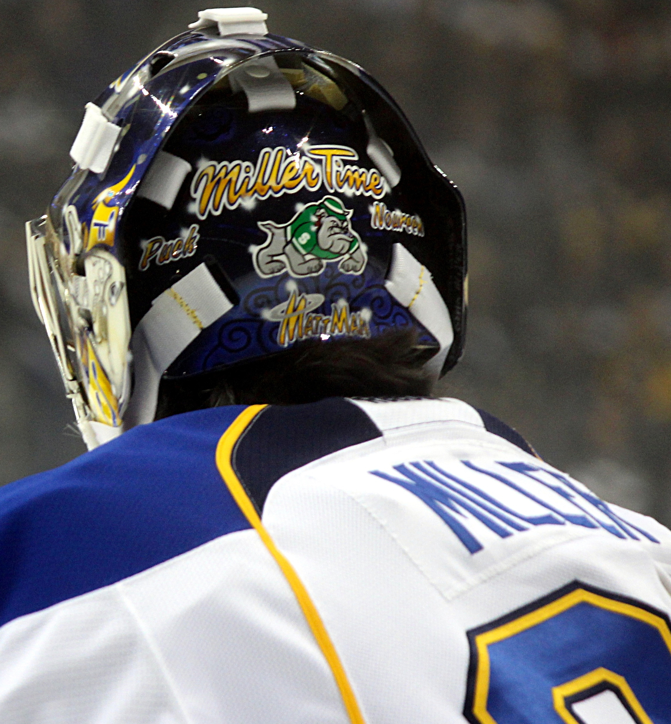 St. Louis Blues goaltender Ryan Miller at Consol Energy Center in Pittsburgh, PA. Miller was the back-up while started Brian Elliott posted a 1-0 win over the Pittsburgh Penguins on March 23, 2014. The back of Miller's helmet has the words "Matt Man" in remembrance of his cousin.